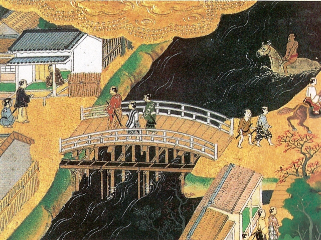 Suido Bridge and Kanda Waterworks Aqueduct over the Kanda River, as described in Edo-zu Byobu